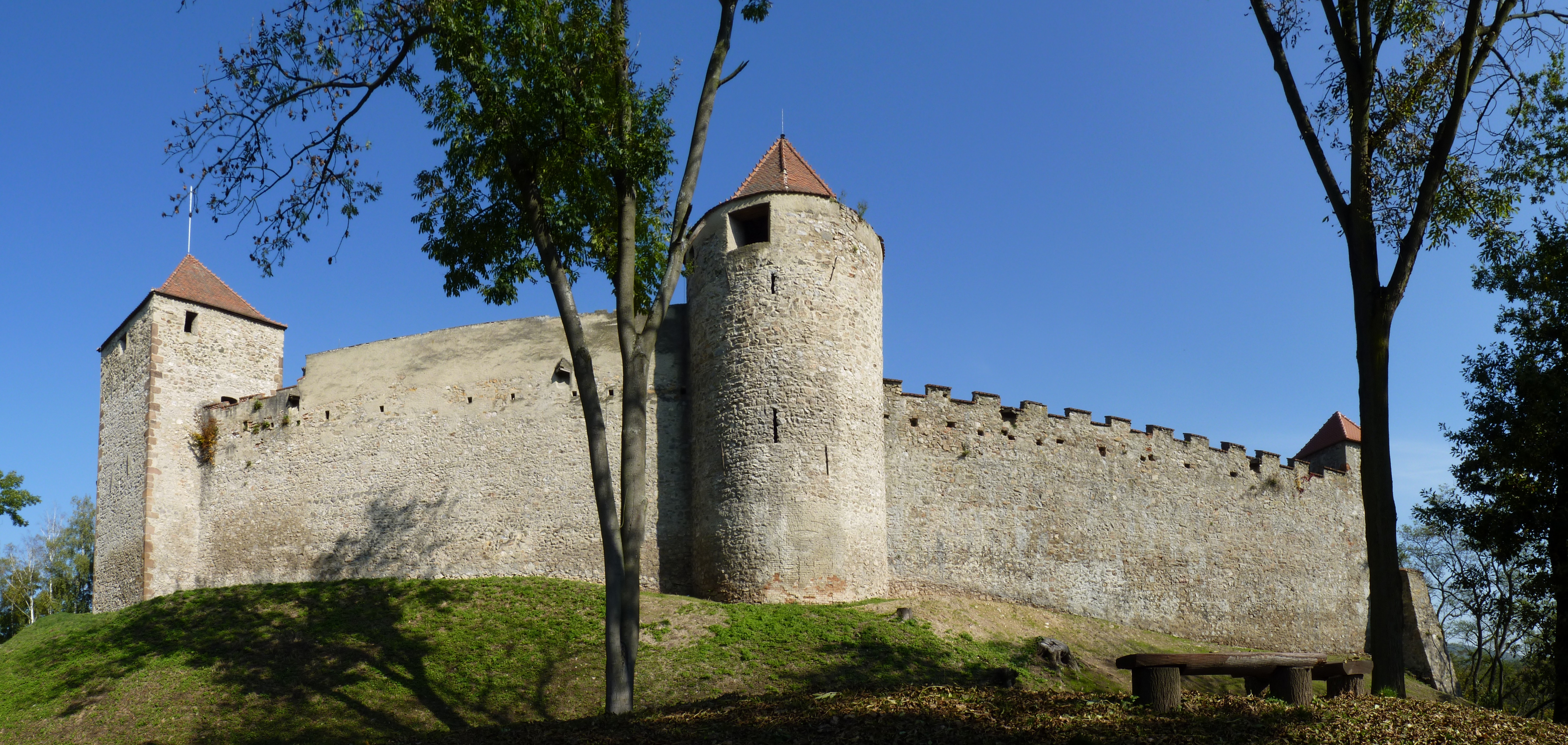 Veveří Castle from enter to upper castle, Brno-City District, South Moravian Region, Czech Republic